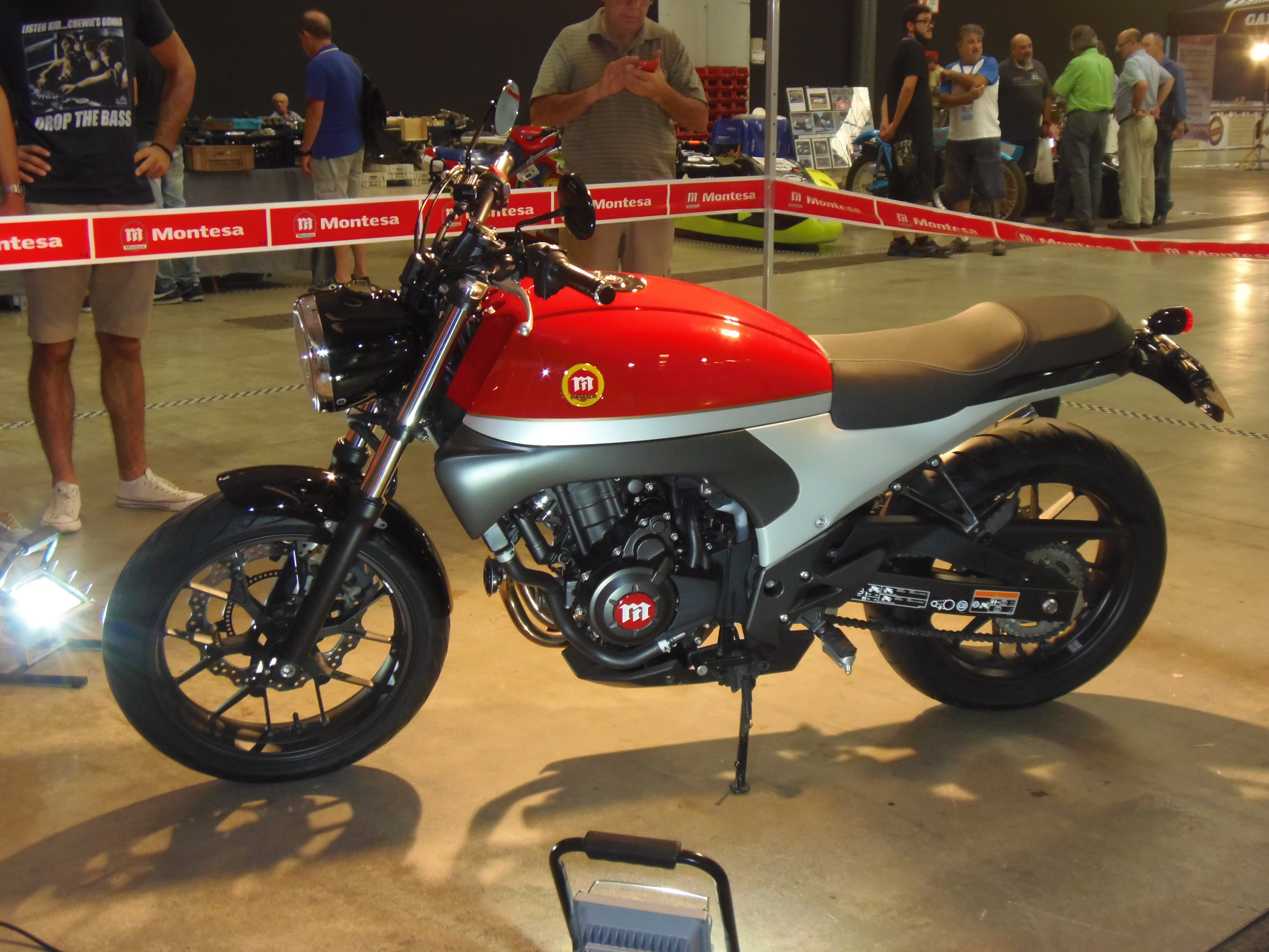 Montesa Impala 3, 2016. Prototype based on a Honda CB500F